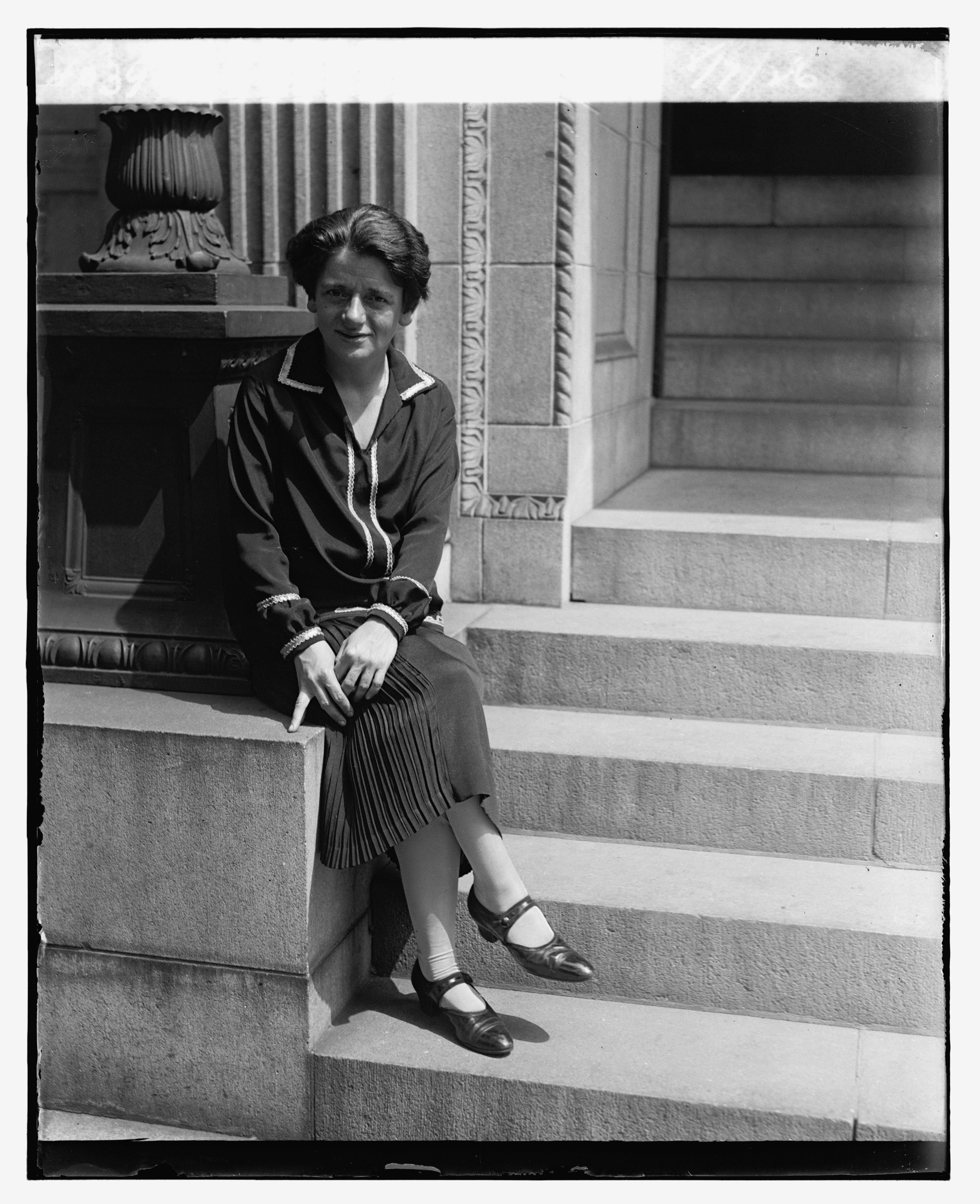 Title: Ellen Wilkinson, 8/7/26 Abstract/medium: 1 negative : glass ; 4 x 5 in. or smaller